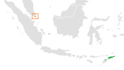 East Timor-Singapore Locator